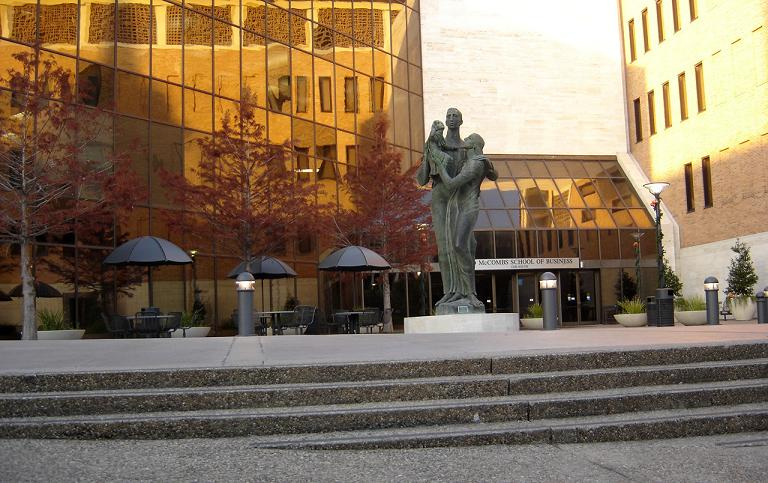 I took this with my digi camera.